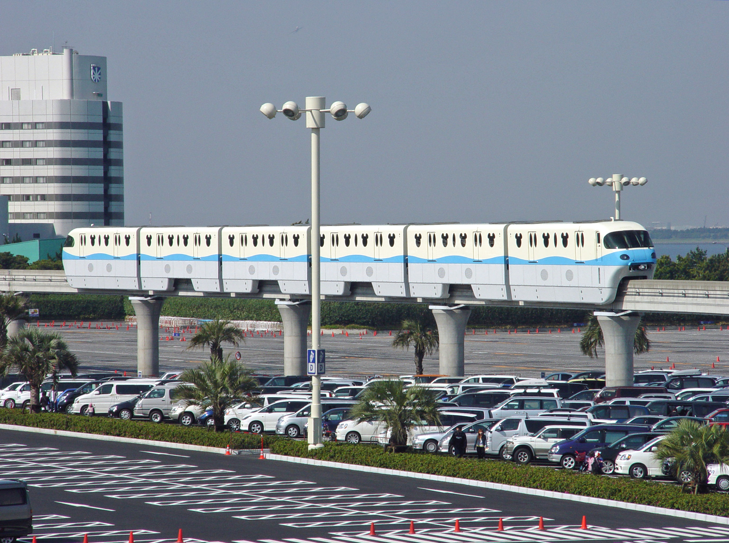 Disney Resort Line